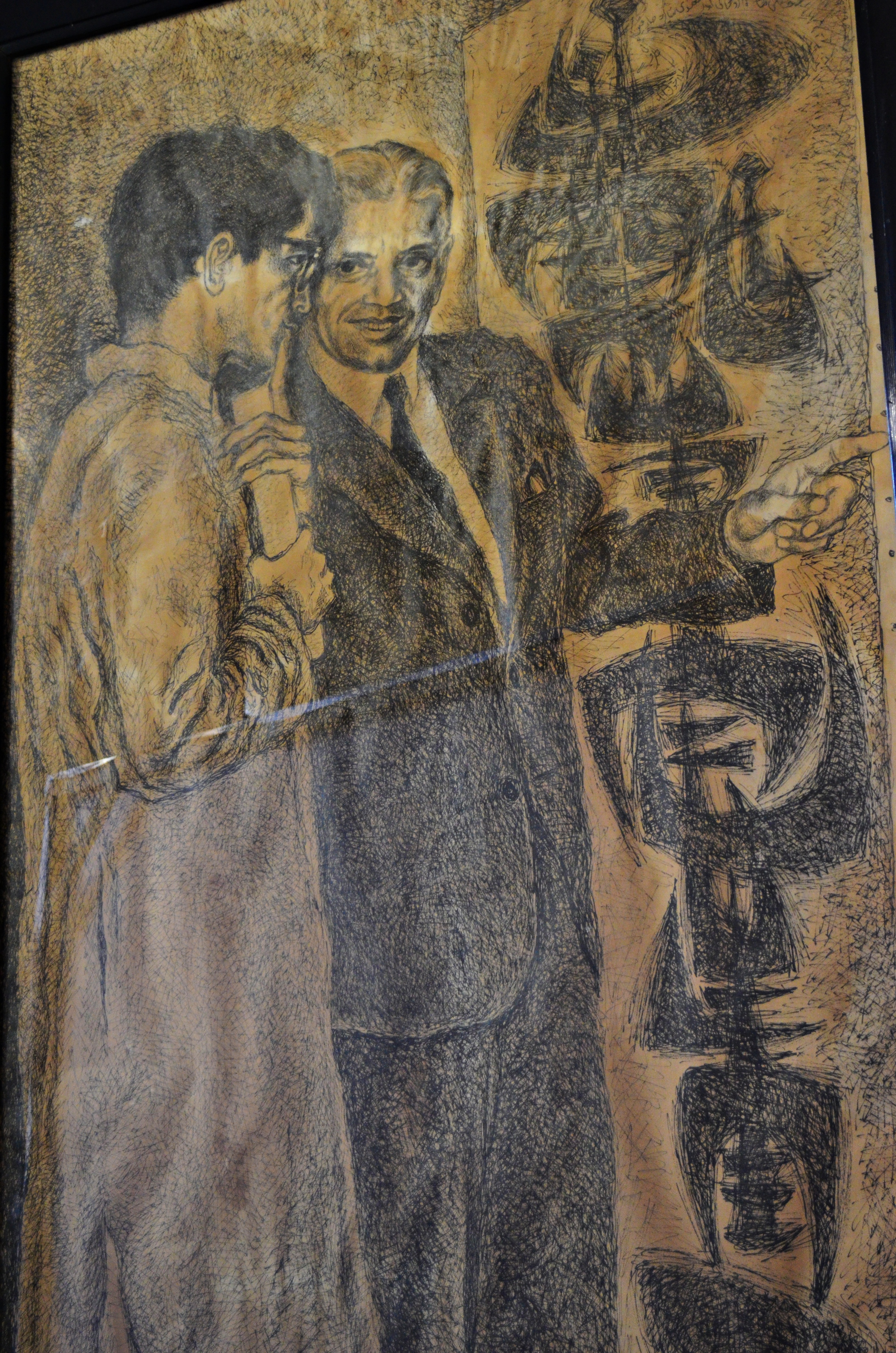 A sketch of Sadequain with Muhammad Ali Jinnah, displayed inside Frere Hall, Karachi, Pakistan. This is a photo of a monument in Pakistan identified as the SD-34